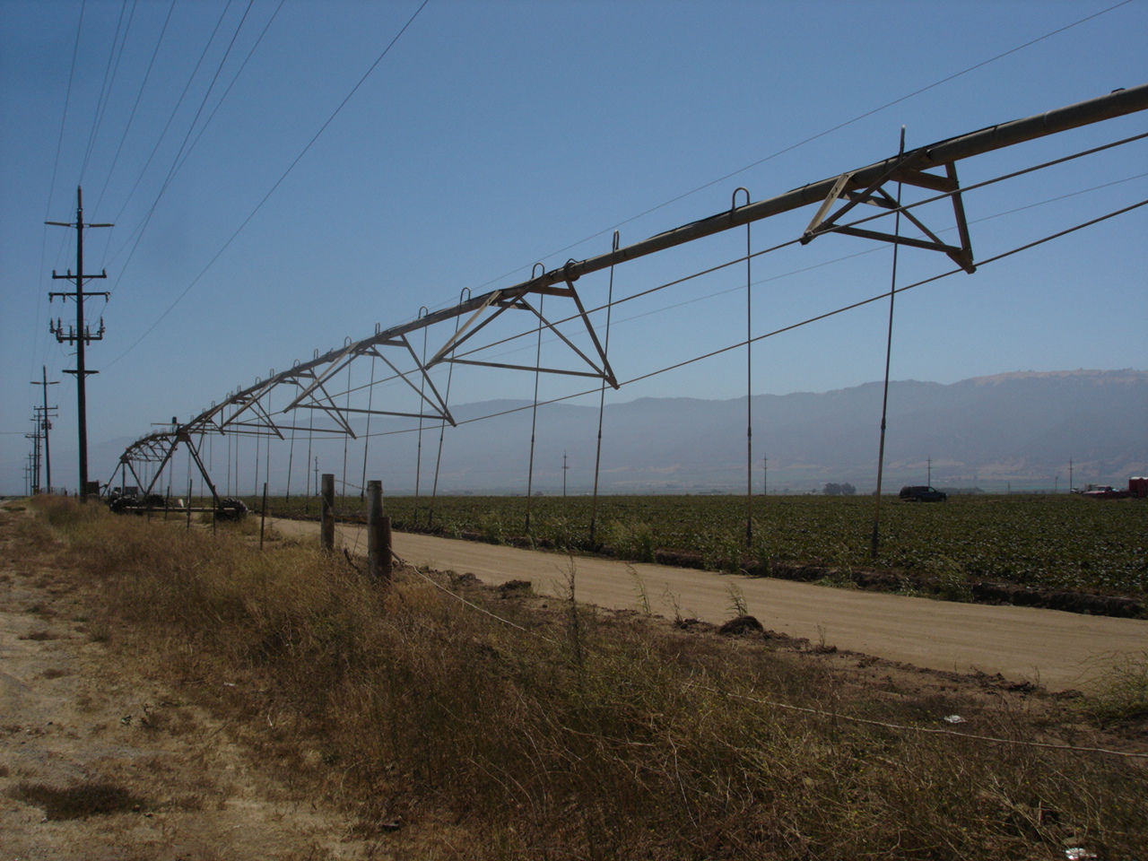 Agricultural irrigation system, near Chualar in the Salinas Valley, Monterey County, California.